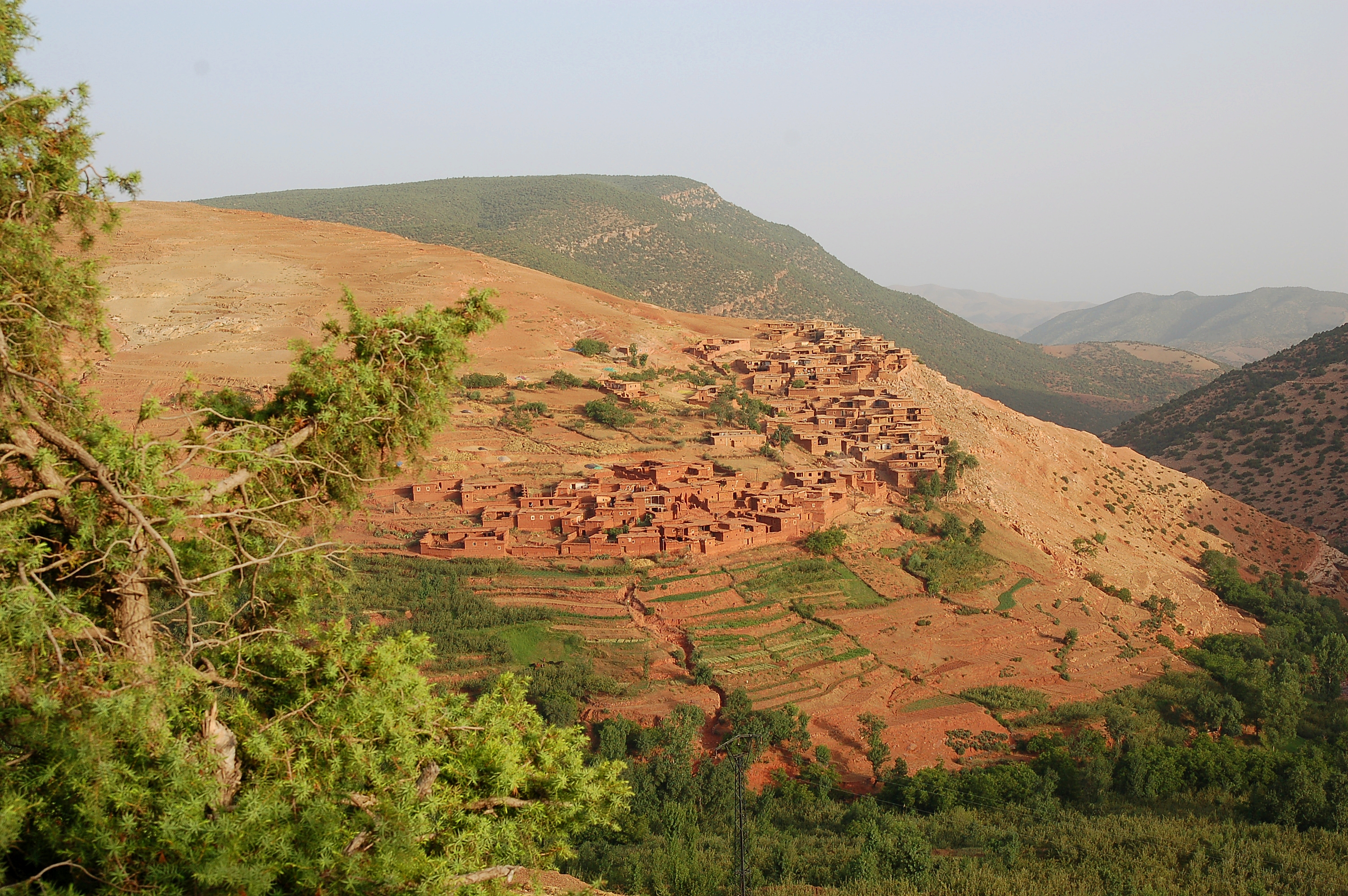 Morroco Berber village in the high Atlas Imlil valley.